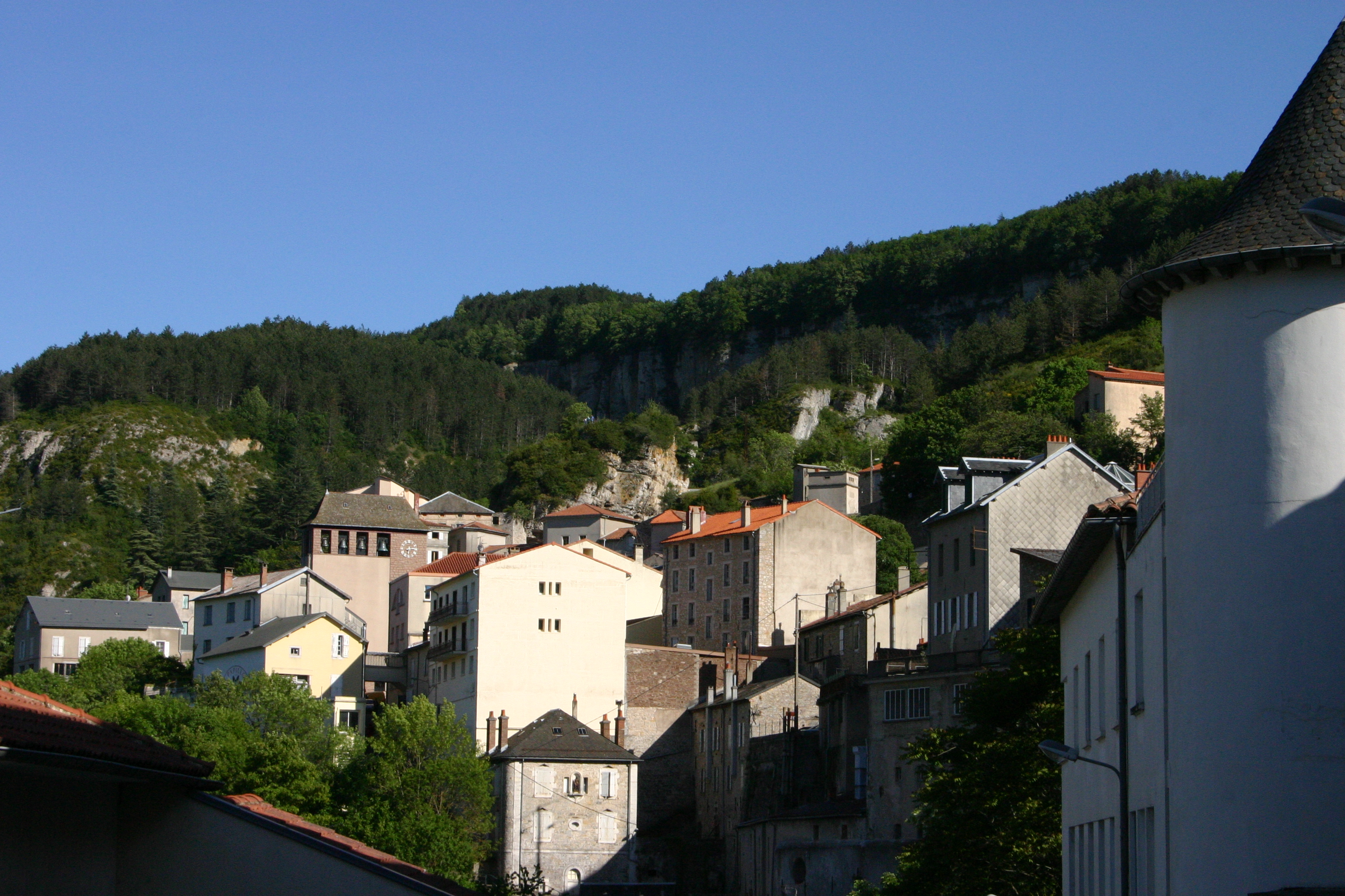 Photo of Roquefort-sur-Soulzon, France